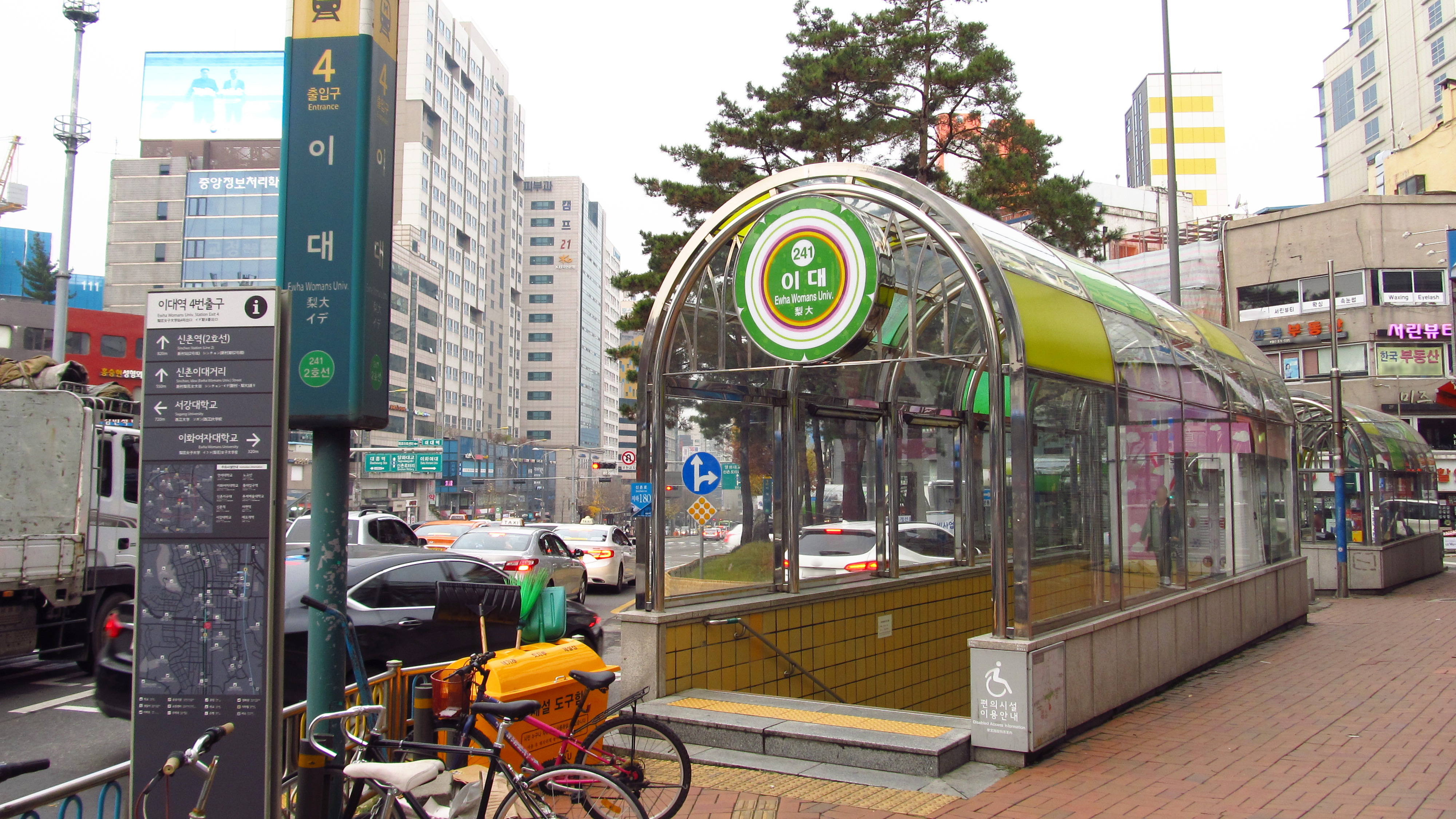 The no.4 entrance to Ewha Womans University Station on the Seoul Metro Line 2 in Mapo-gu, Seoul, Republic of Korea(South Korea)